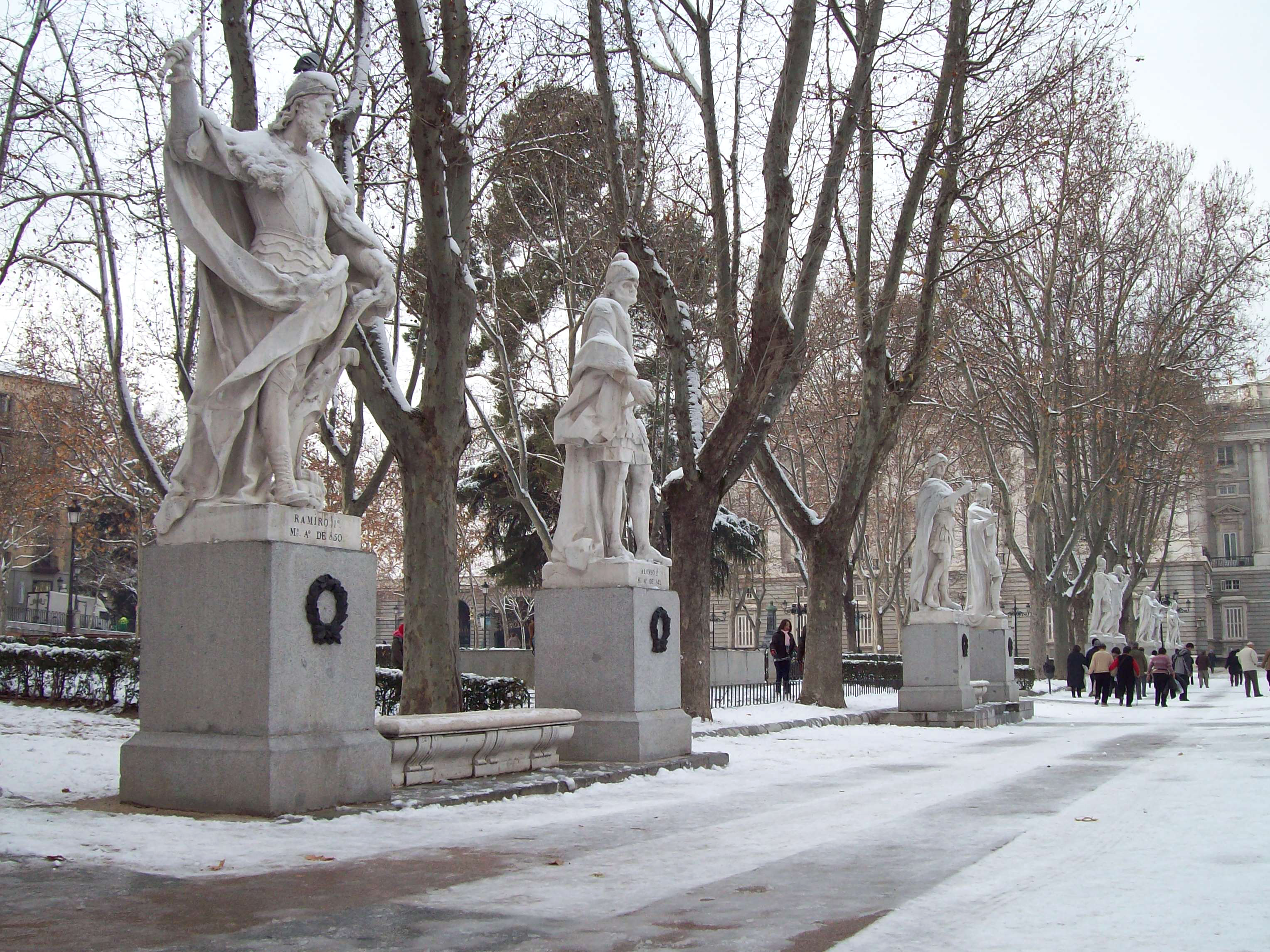 Partial view of the Plaza de Oriente (square) in Madrid (Spain) after a snowfall. At the left, some of the statues of monarchs from the Royal Palace (in the background) sculpted between 1750 and 1753.